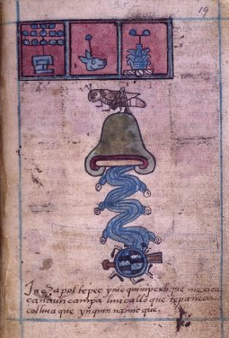 Close up of folio 19, Aubin Codex